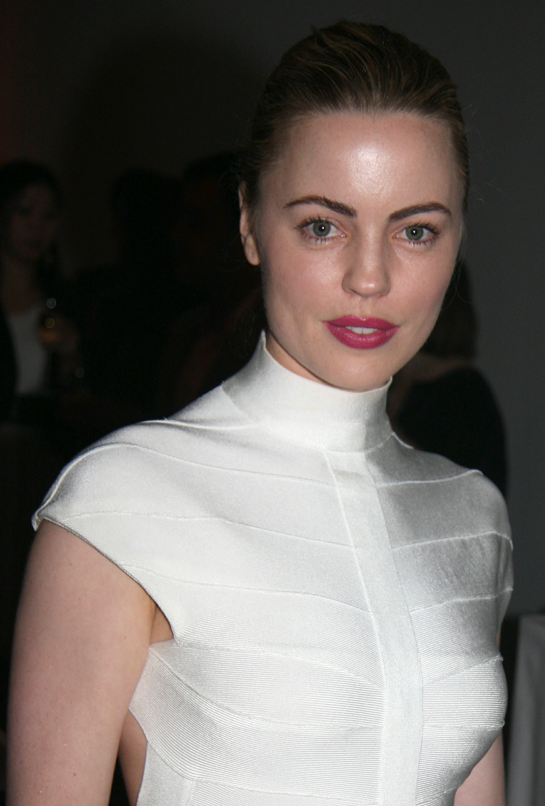 Melissa George in June 2009.